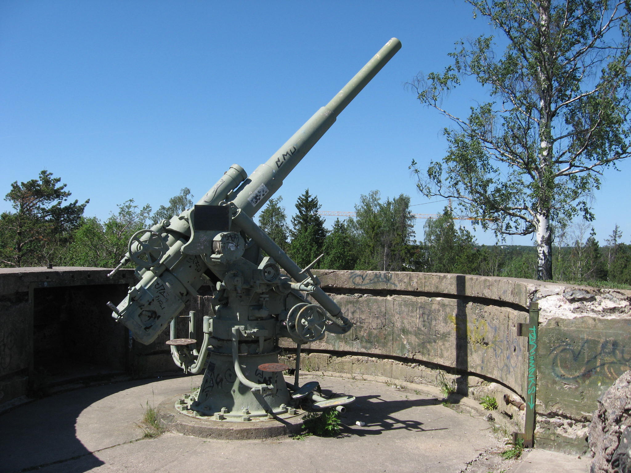 Bofors 76 anti-aircraft cannon on top of Taivaskallio, Helsinki, Finland.